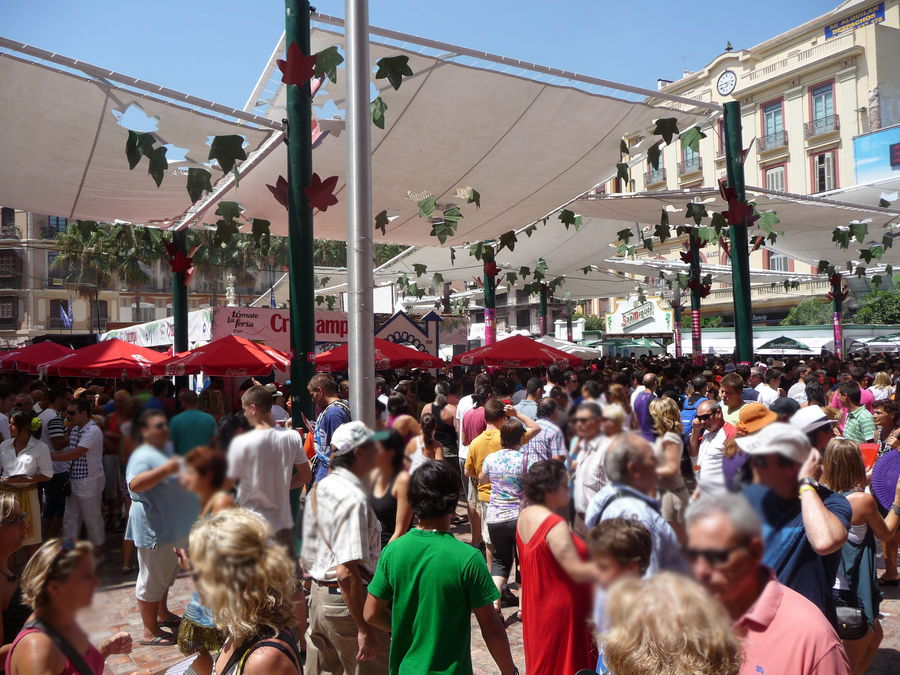 Malaga_Palaza_constitucion_during Feria2